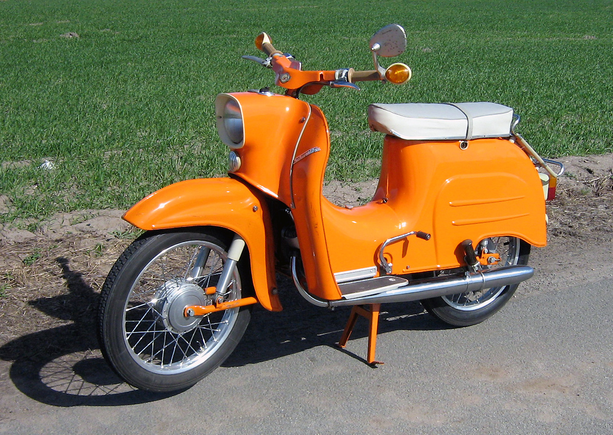 Simson Schwalbe KR 51 H, built in 1964, absolutely original. Over the many years only 70 km run!!! not restored!